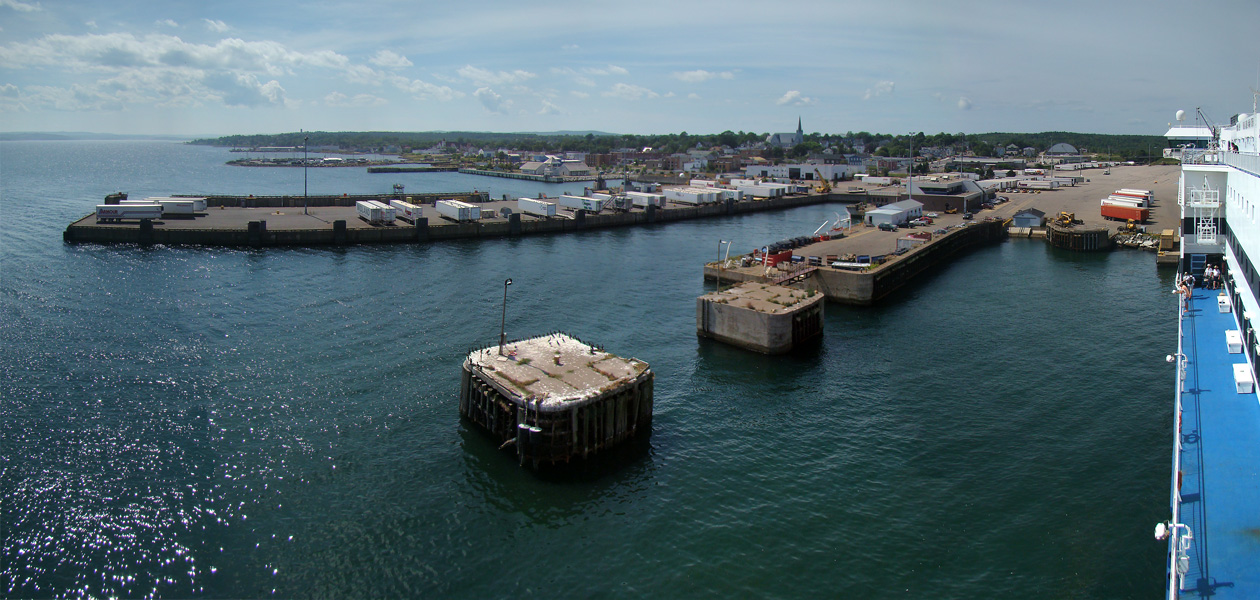 North Sydney, Cape Breton Island, Nova Scotia, Canada. Panorama of the harbour, from the deck of the Marine Atlantic ferry departing for Newfoundland.